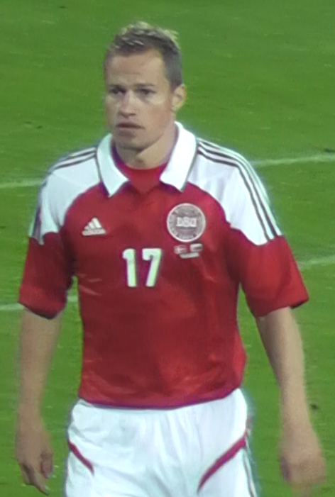 Nicolai Stockholm playing for Denmark vs Slovakia